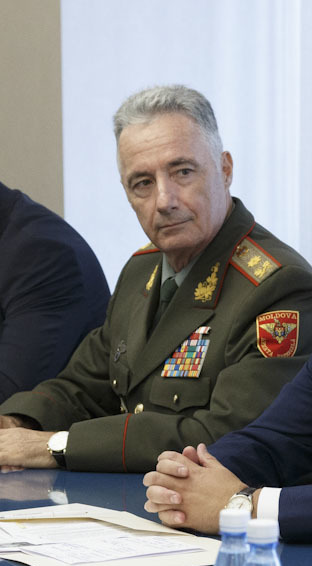 Глава российского военного ведомства передал президенту Молдавии рассекреченные документы, связанные с освобождением Молдавии от фашизма